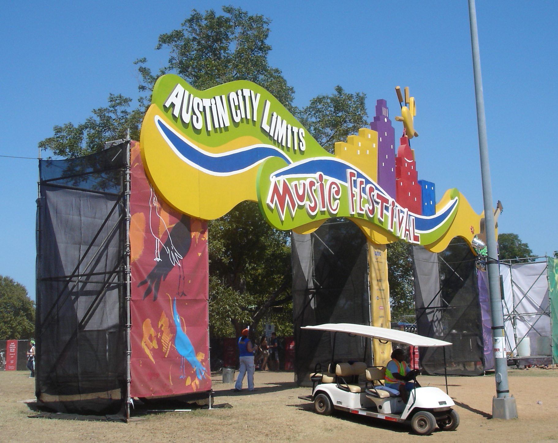 Picture of the entrance to the Austin City Limits Music Festival. Transferred from English Wikipedia, originally uploaded on 2005-10-07 Notice the dusty ground conditions from drought and intense heat during the 2005 festival.